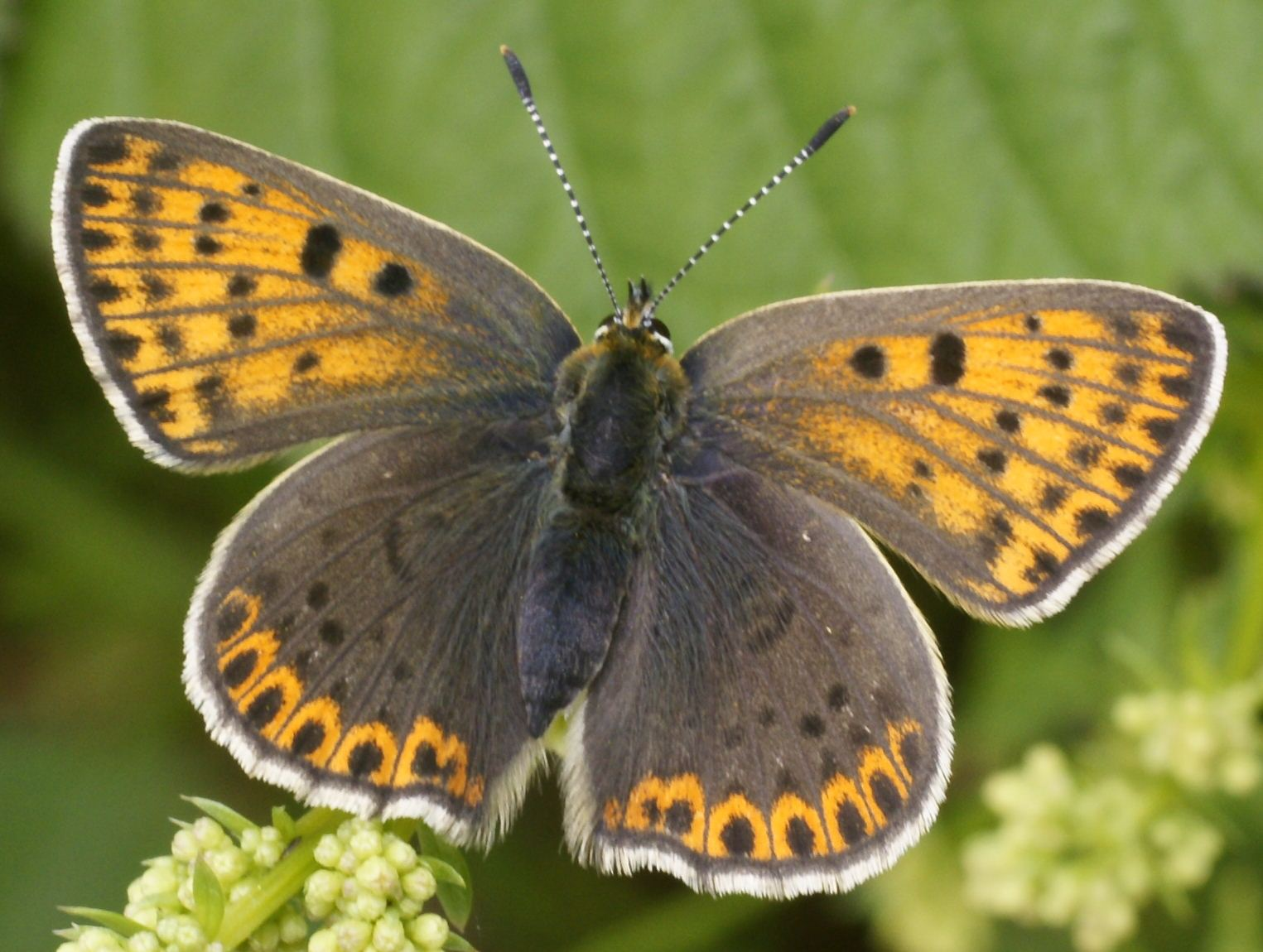 Sooty copper (Lycaena tityrus), female; near Starkenburg/Moselle (Germany)